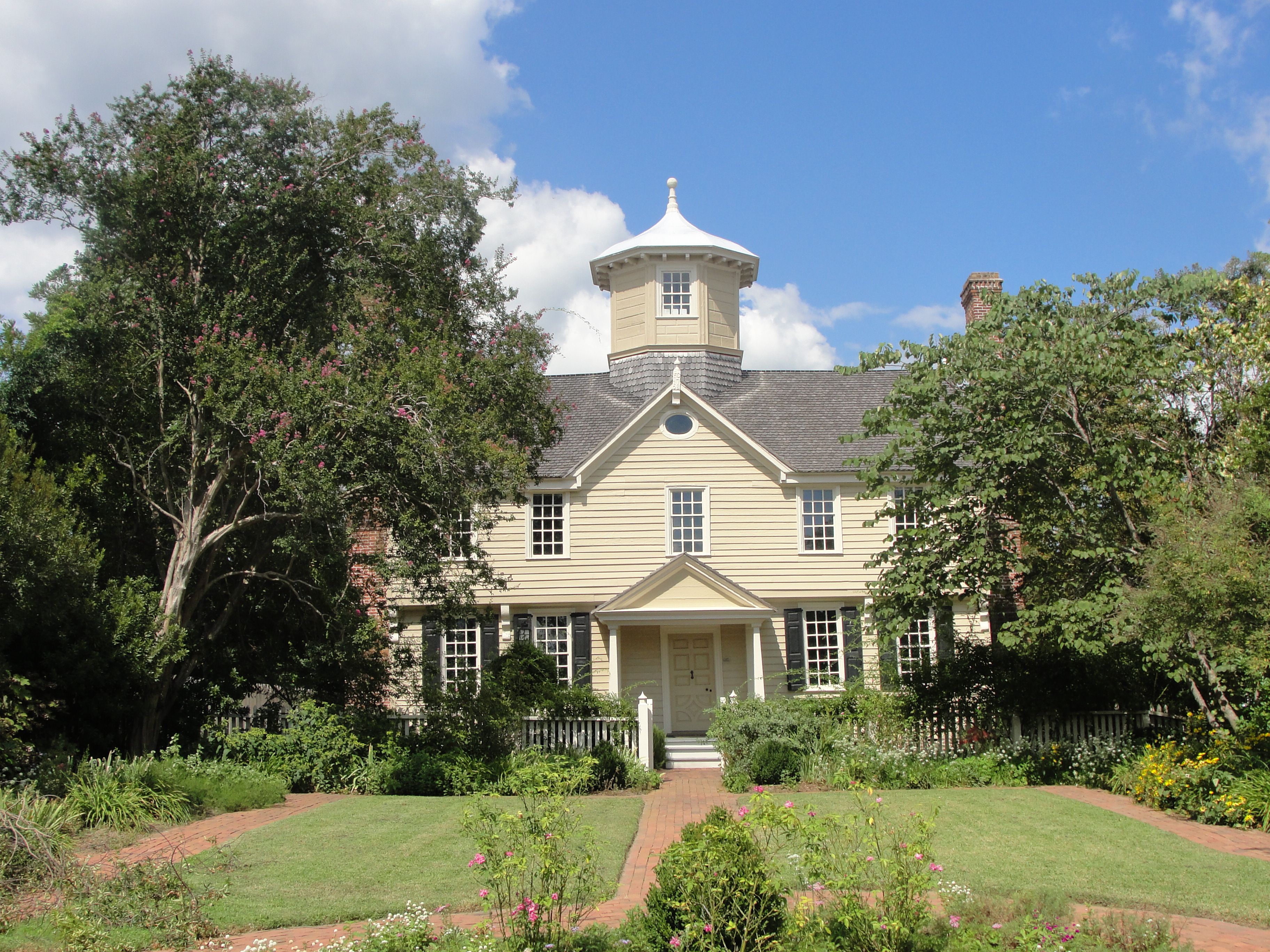 The Cupola House in Edenton, Chowan County, North Carolina was built in 1758 for Francis Corbin. Added to the National Register of Historic Places in 1970. Open to the public.